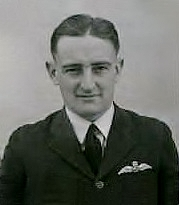 Wing Commander (later Air Vice Marshal) Frank Headlam